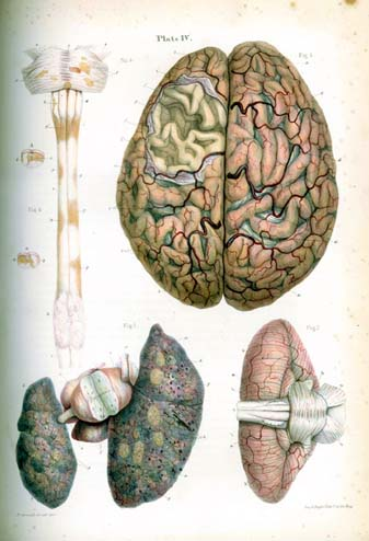 Pathological Anatomy Illustrations of the Elementary Forms of Disease